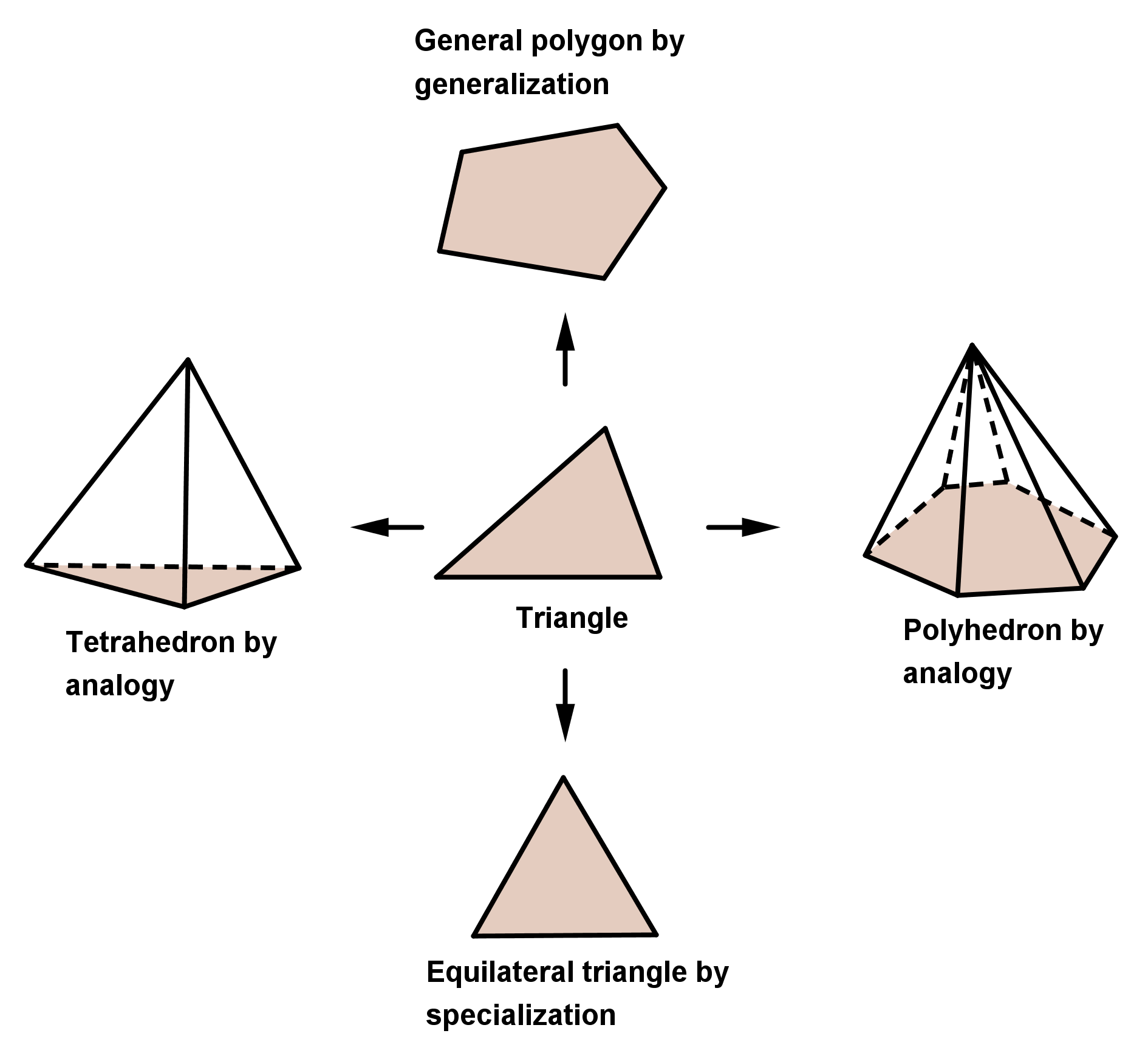 The image illustrates some of methods by which one can guess new results from known results: specialization, generalization and analogy. These techniques are suggested as methods of plausible reasoning by George Polya in his two-volume book Mathematics of plausible reasoning.